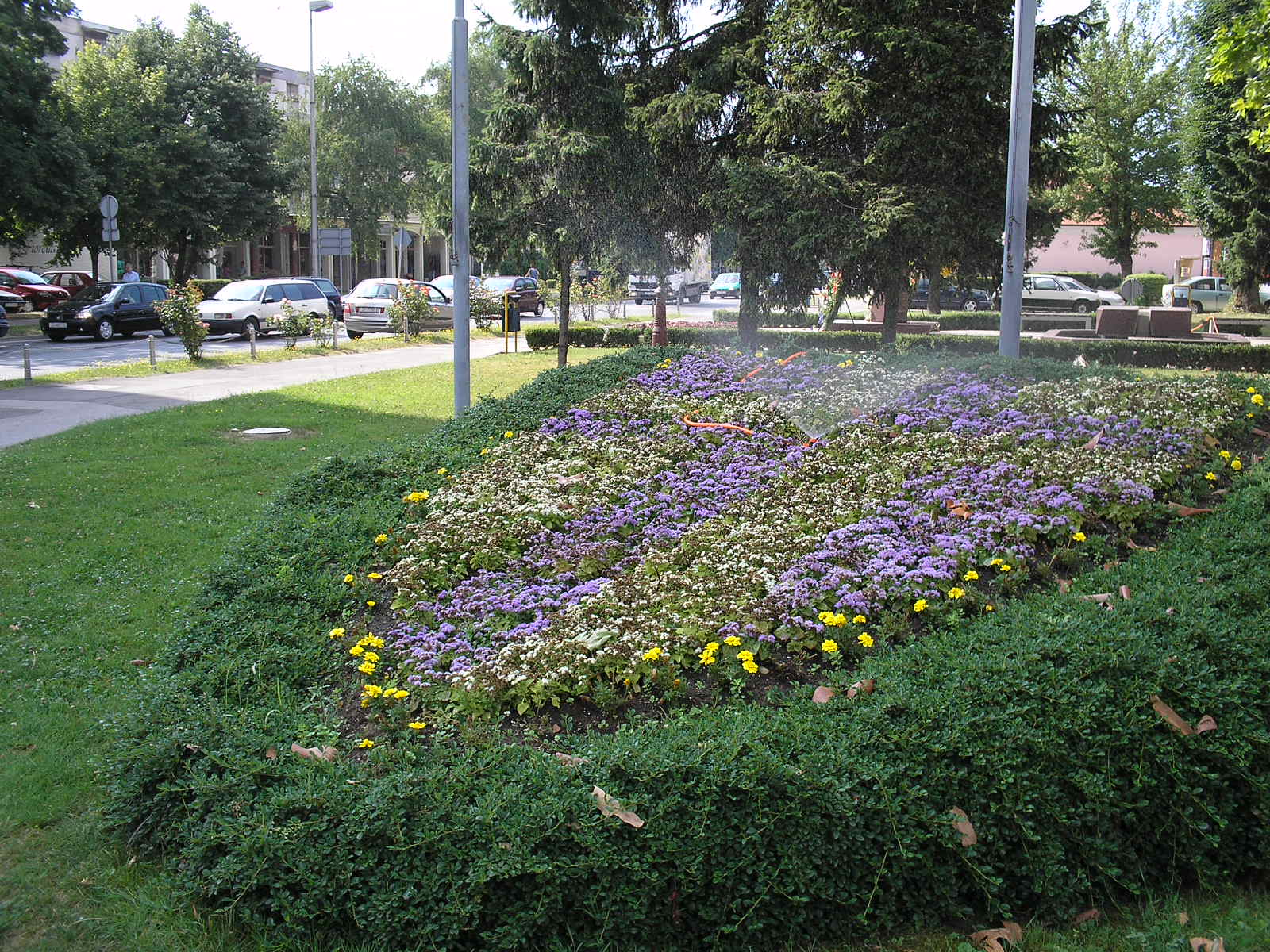 Coat of arms of the city Zapresic, made out of flowers